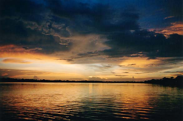 Taken from a boat in the Orinoco Delta, Venezuela, after three days kayaking down the delta.